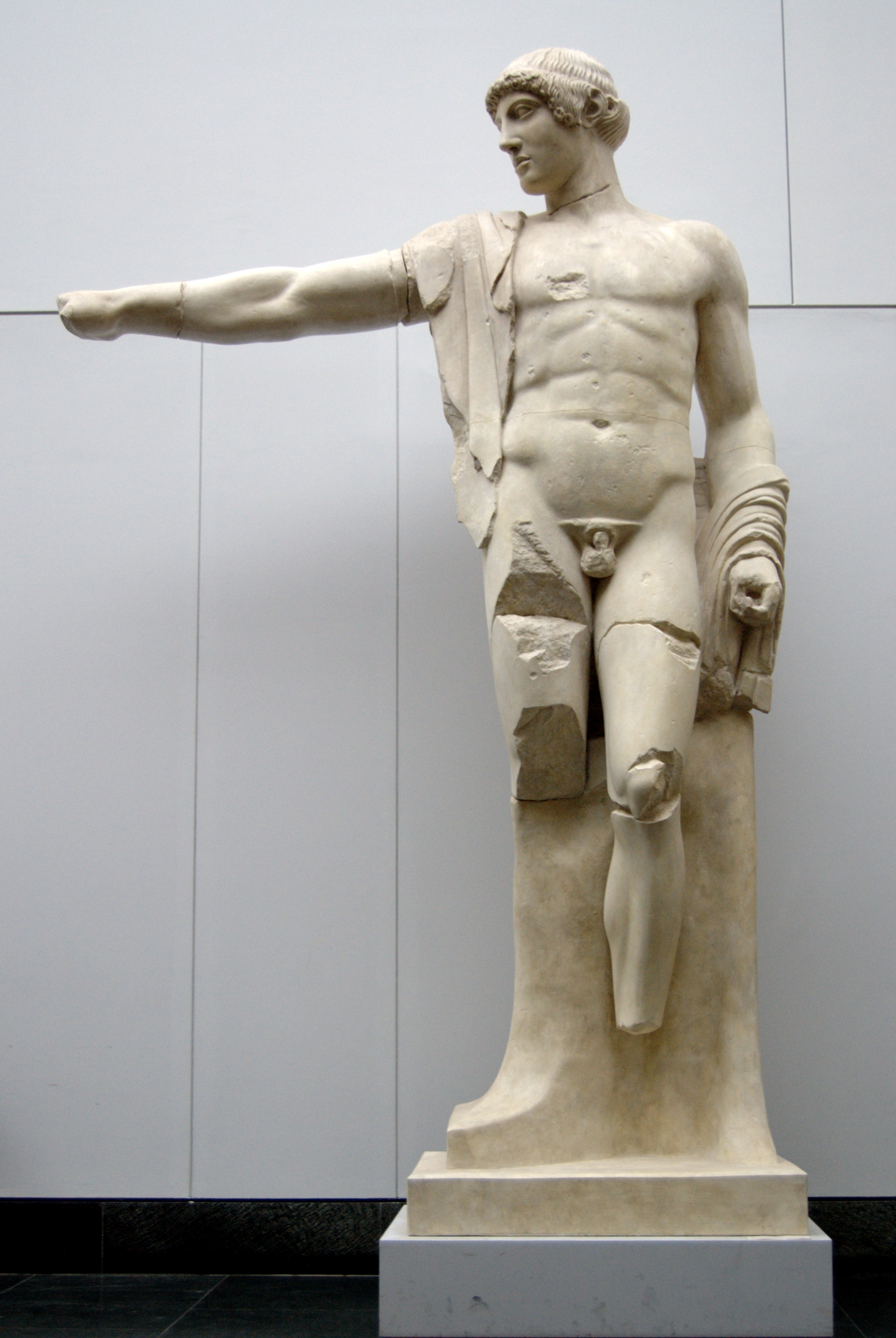 Apollo, figure of the west pediment of the Temple of Zeus in Olympia. Plaster reproduction of original in the Olympia Museum (see below).